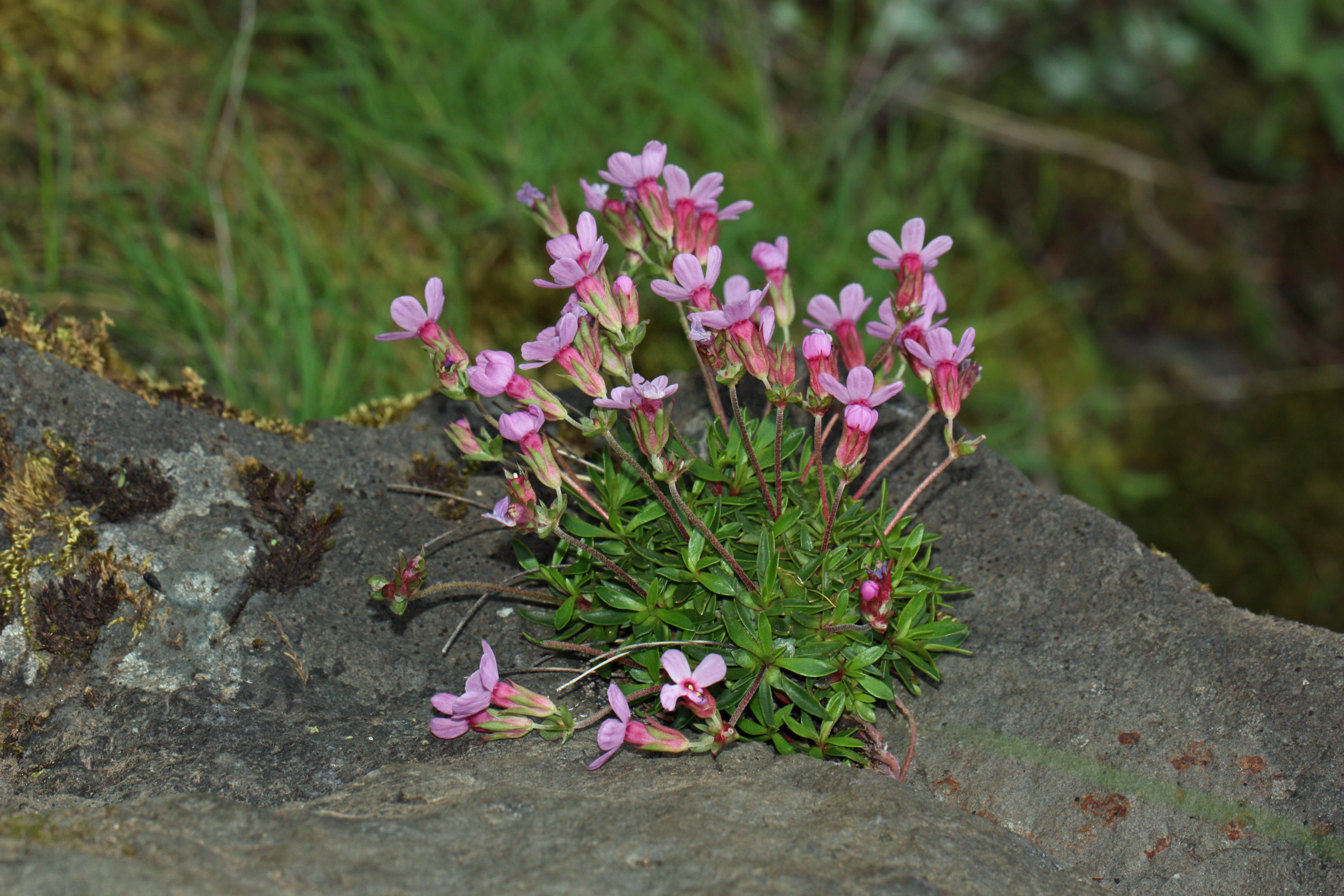 Cliff Dwarf-primrose